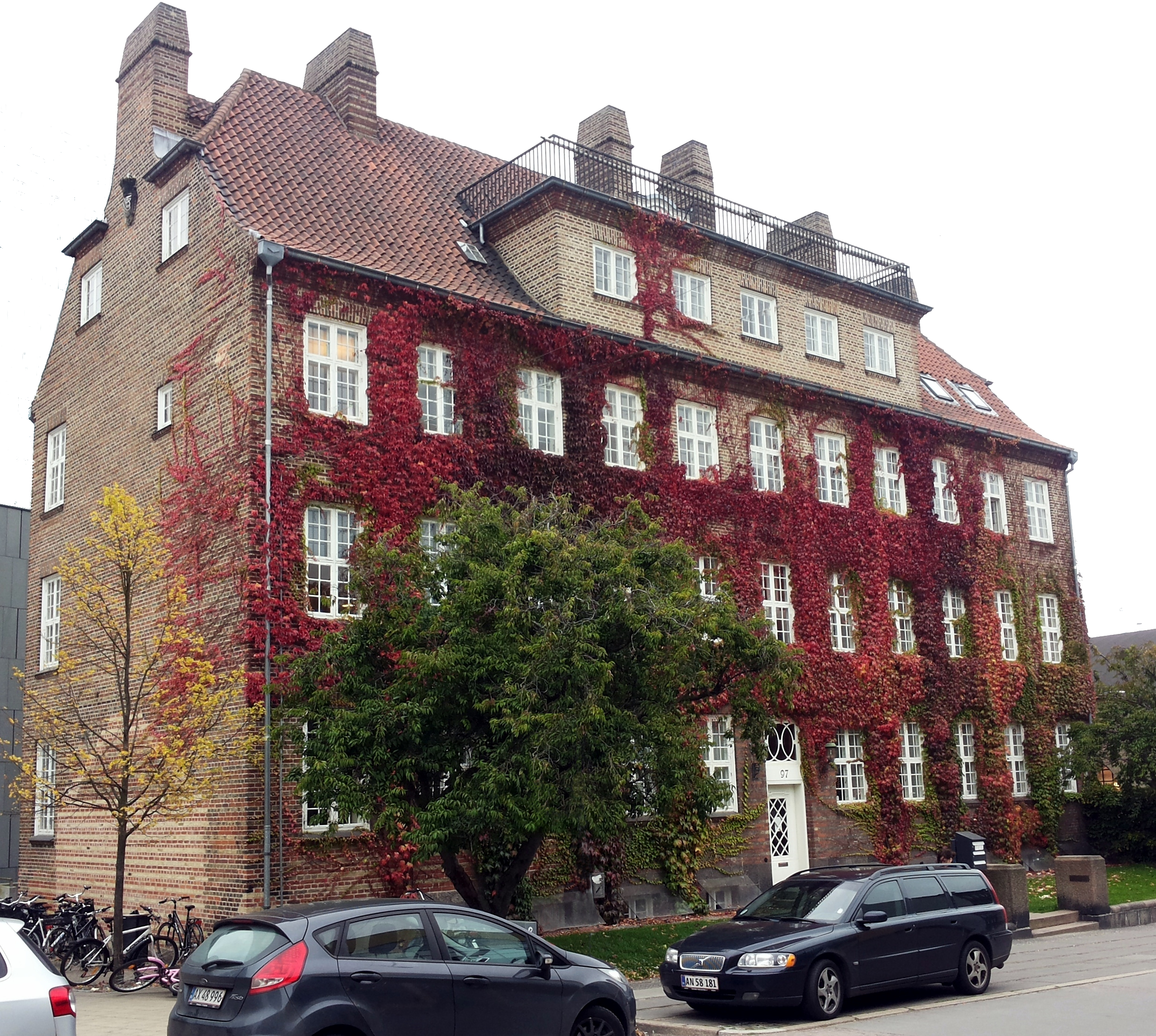 Centralværkstedernes administrationsbygning